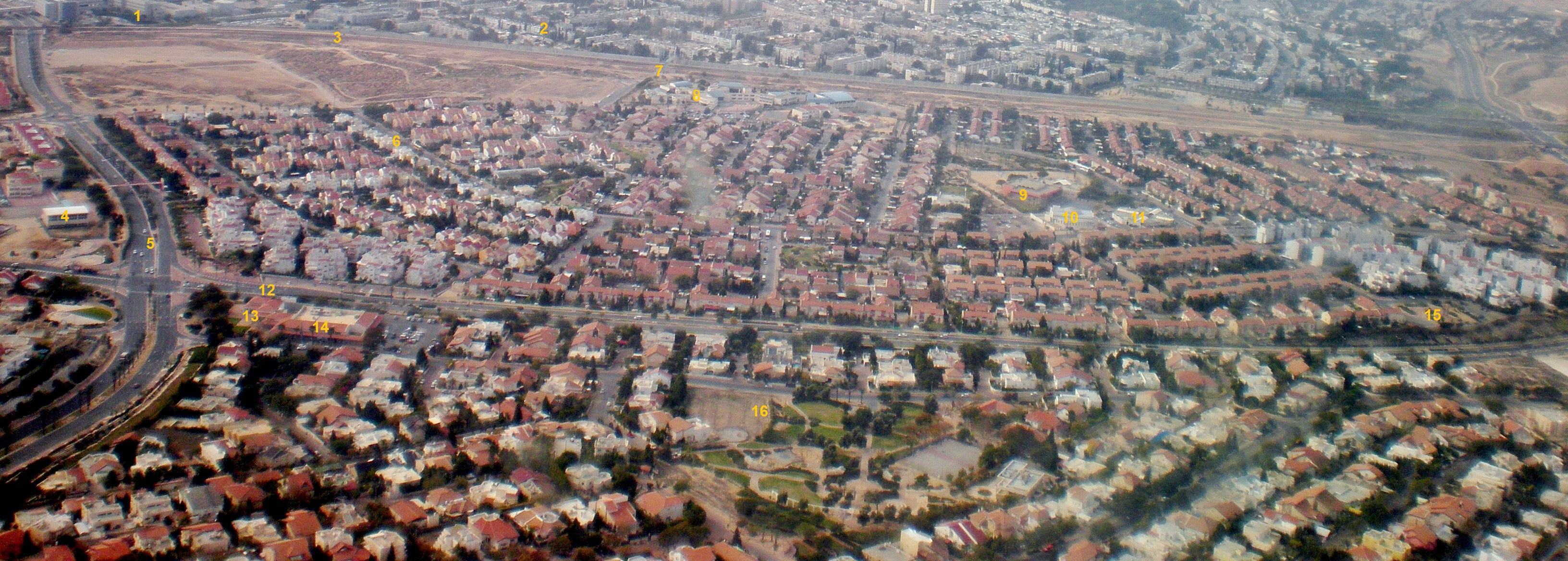 An aerial photo of Old Ramot, Beersheba, Israel. 1. (Upper left corner) Ben-Gurion University. 2. Neighborhood D (Shchuna Dalet). 3. The railway. 4. (Middle left) Ben-Gurion Elementary School. 5. Uri-Tzvi Greenberg Boulevard. 6. HaMadda Street. 7. HaHascalah Pedestrian Bridge. 8. The Rav-Tchoomy High School. 9. Ramot Elementary School. 10. A kollel. 11. A shopping center. 12. Avital Boulevard. 13. HaPoalim Bank. 14. A supermarket. 15. (Middle left) A statue. 16. A large park, called HaQshatot Park.